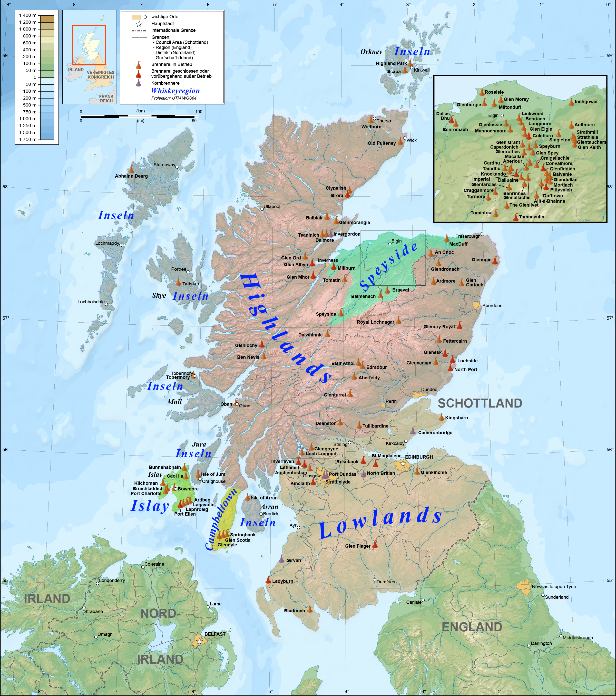 Map of Whisky distilleries in Scotland